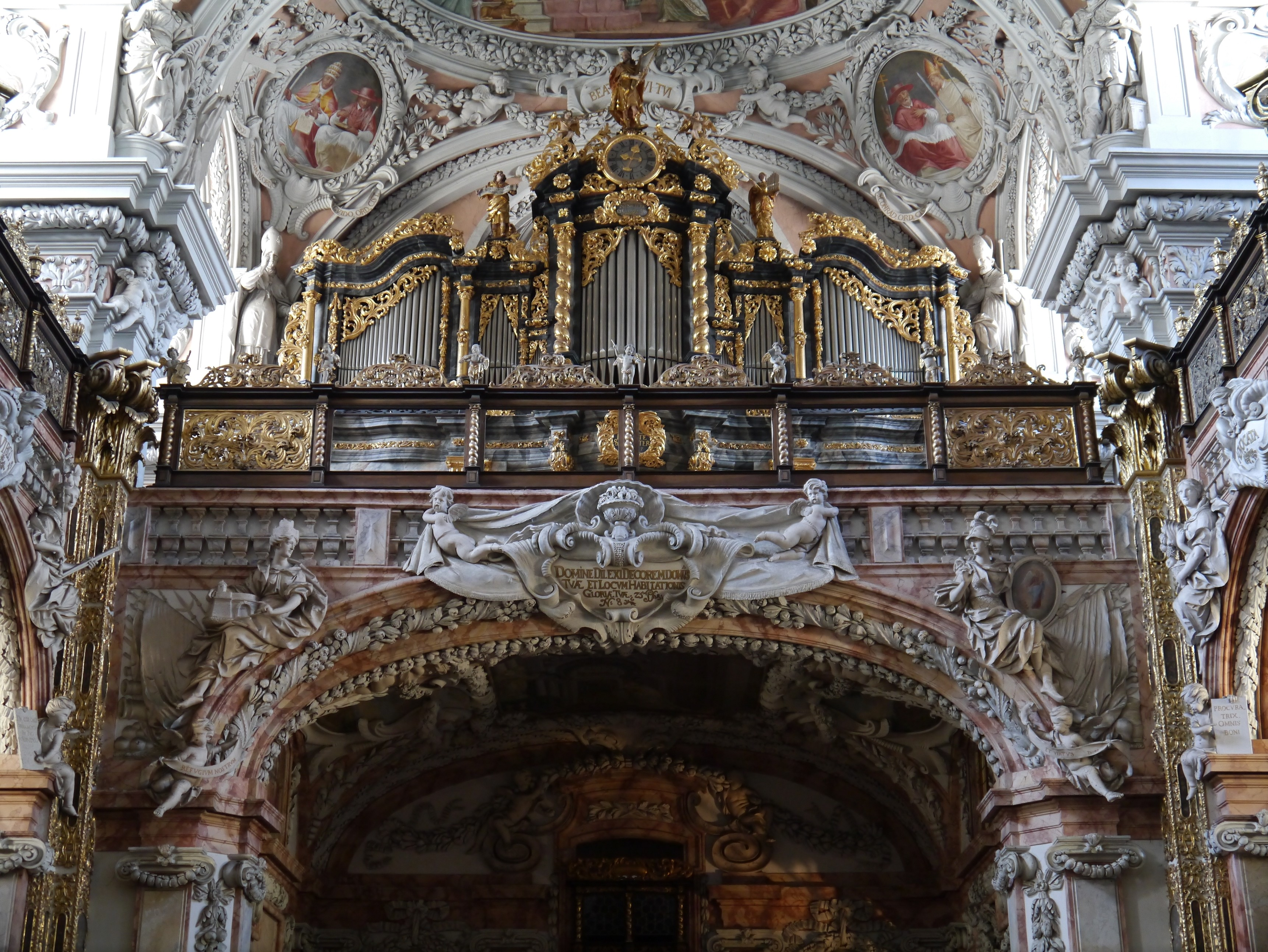 Organ of Schlierbach Abbey Church, Schlierbach, Upper Austria